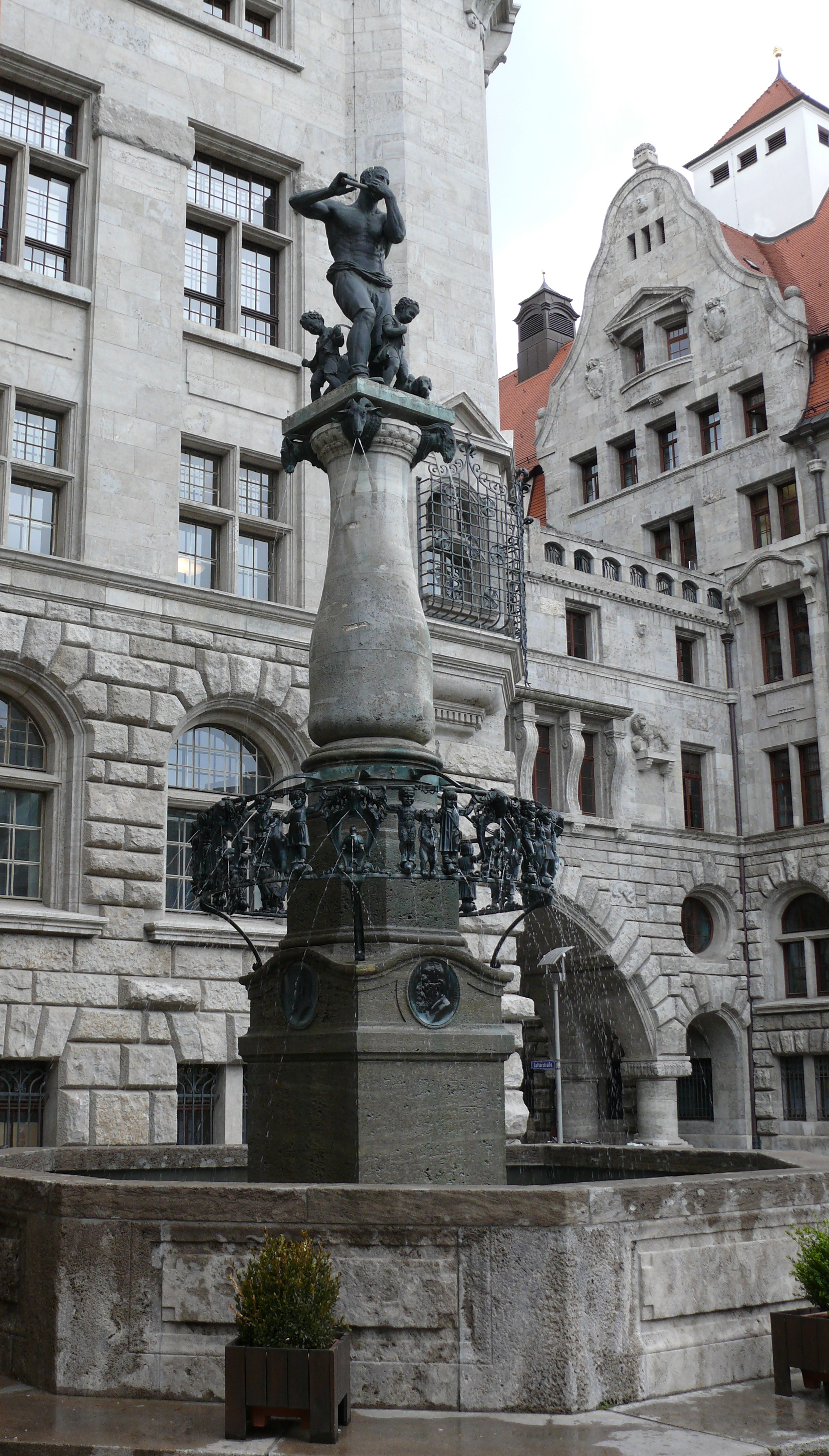 The Rathausbrunnen by Georg Wrba (1908) in front of the New Town Hall (Neues Rathaus) in Leipzig, Germany.